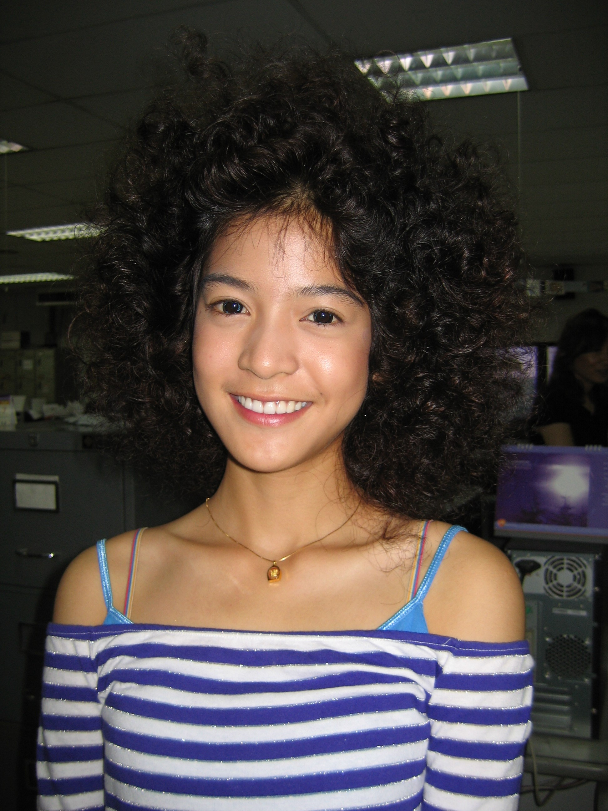 Thai actress Apinya Sakuljaroensuk on a press tour for the film Ploy.